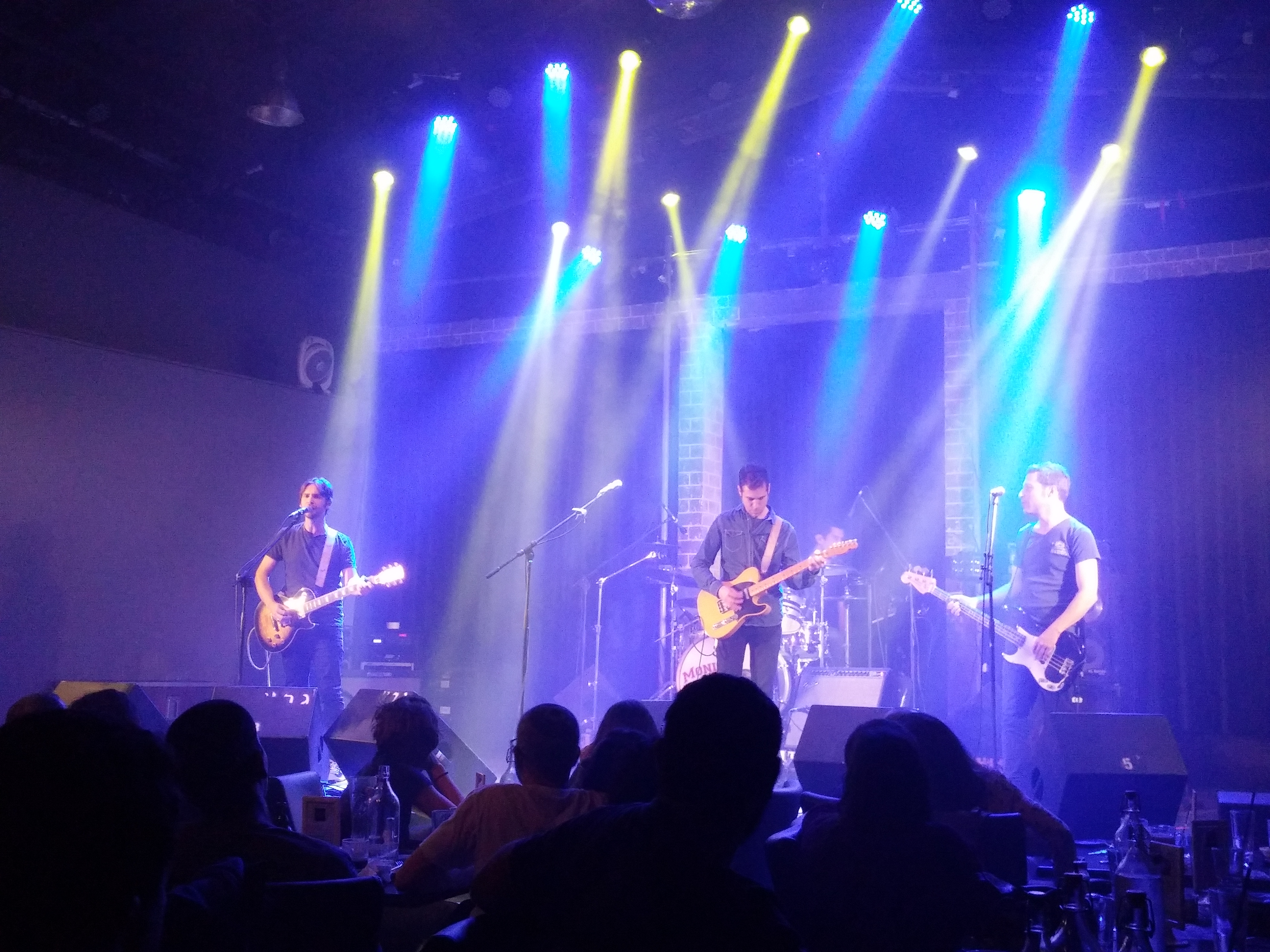 Monica Sex (Hebrew: מוניקה סקס; also spelled Monika Sex) is an Israeli rock band that is very popular among young fans and the contemporary music scene.